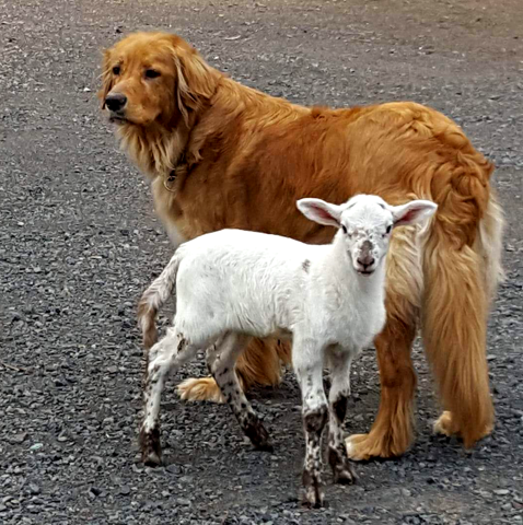 Blond Hovawart with Lamb